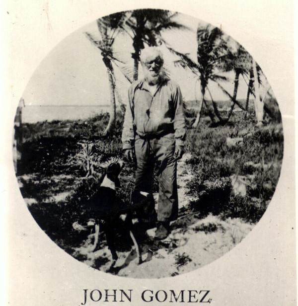 John Gomez, also known as Juan Gomez and Panther John. Source of the stories which became inspiration for the legend of Jose Gaspar.